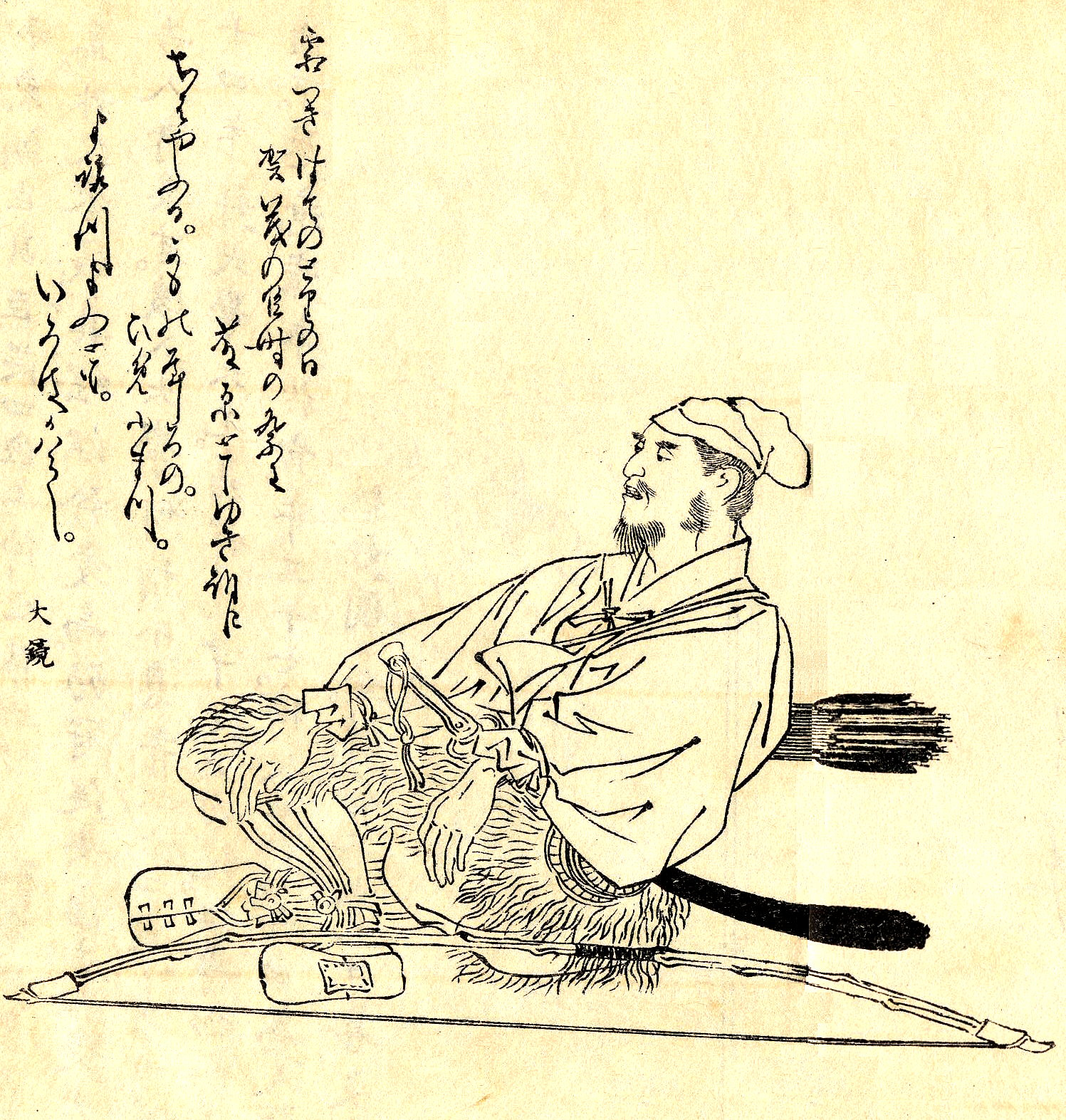 Fujiwara no Fujimaro(藤原富士麻呂） was a japanese military officer in Heian period.This picture was drawn by Kikuchi Yosai(菊池容斎).